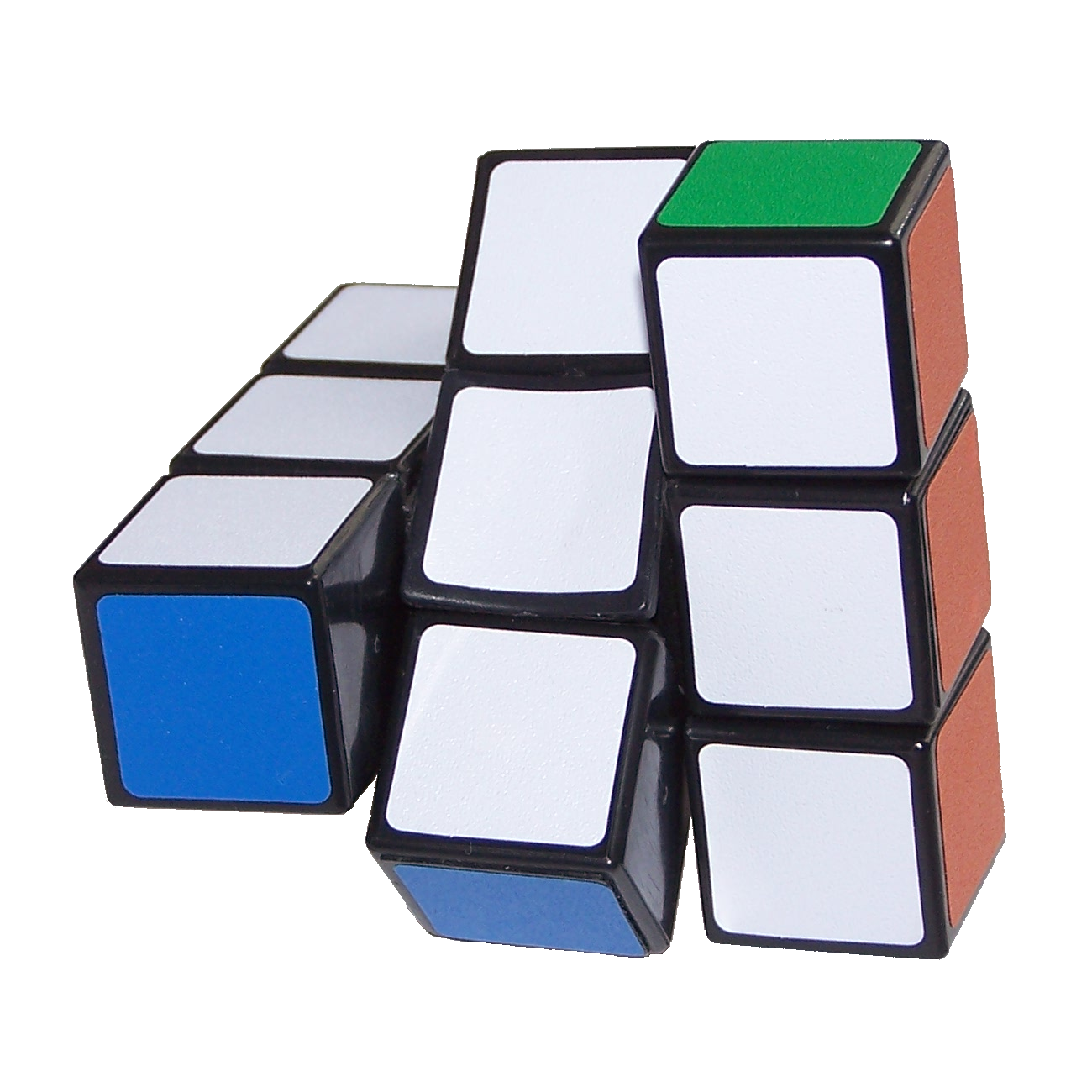 This kind of Rubik's Cube is called Floppy Cube or 3×3×1. You can see it here in the solved state, additional two sides are turned. His mechanism allows to turn the front, the right, the back and the left side, and also the two inner layers 180°. You can them turn 90°, too, but then you can't turn anything else, without turning your side the rest of the 180° (and the two layers, which are parallel to your side). The total number of permutations of the Floppy Cube is 192 and you can it solve always in less or exactly 8 moves.